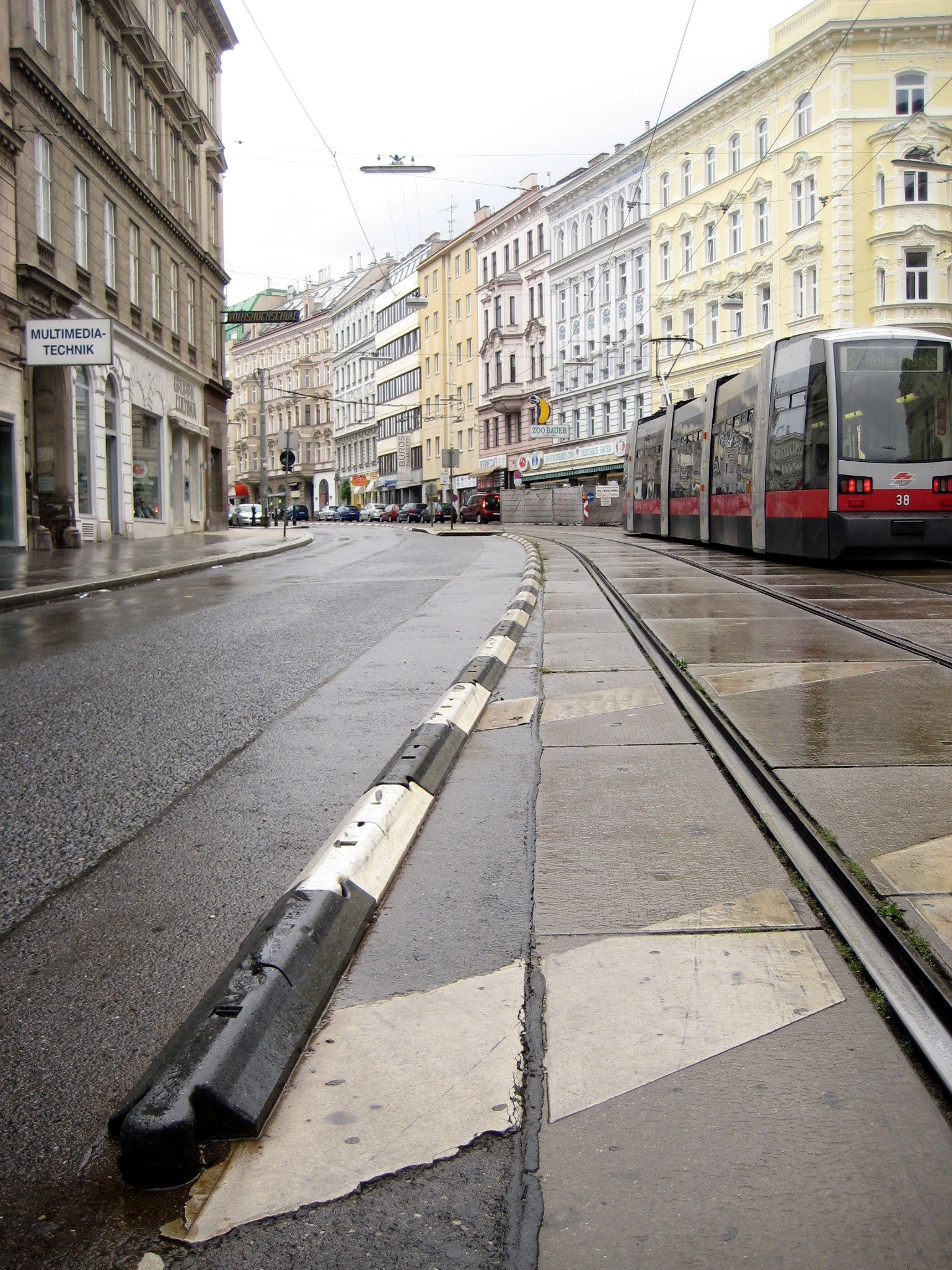 "Stuttgarter Schwelle", a barrier between tramway track and a traffic lane. Example at Nußdorfer Straße, Vienna, Austria